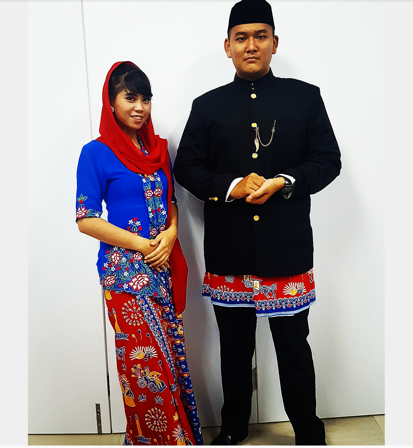 Betawinese traditional Demang dress. It is worn during formal Betawinese occasions such as weddings, formal cultural gathering, folk meetings, etc. Baju Demang is the name in Indonesian for this clothing. It is worn in a pair for male and female. Men is worn a Beskap for the shirt, a Songkok for the headdress, a kain samping for the upper layer of the trousers worn under the beskap, and black trousers for the pants that match the color of the Beskap. The woman is worn a Kebaya and a skirt (kain) with Betawinese batik pattern